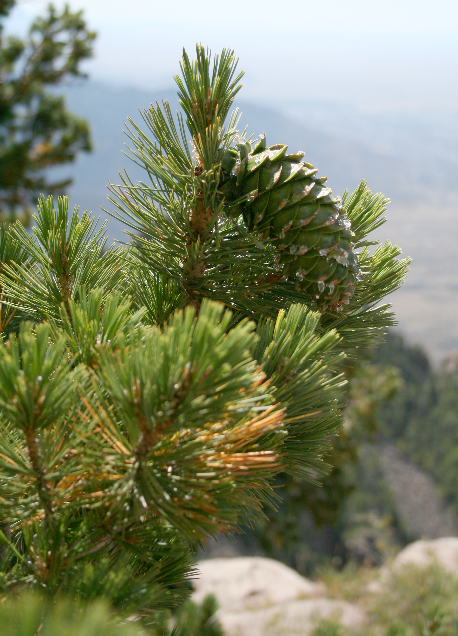 Pinus reflexa cone and foliage. Sandia Crest, New Mexico, USA.